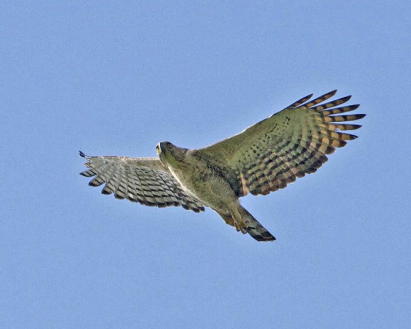 Mountain Hawk-Eagle Spizaetus nipalensis Gunong Raya, Langkawi, Malaysia 19th. October 2010 Distribution: 690V2934